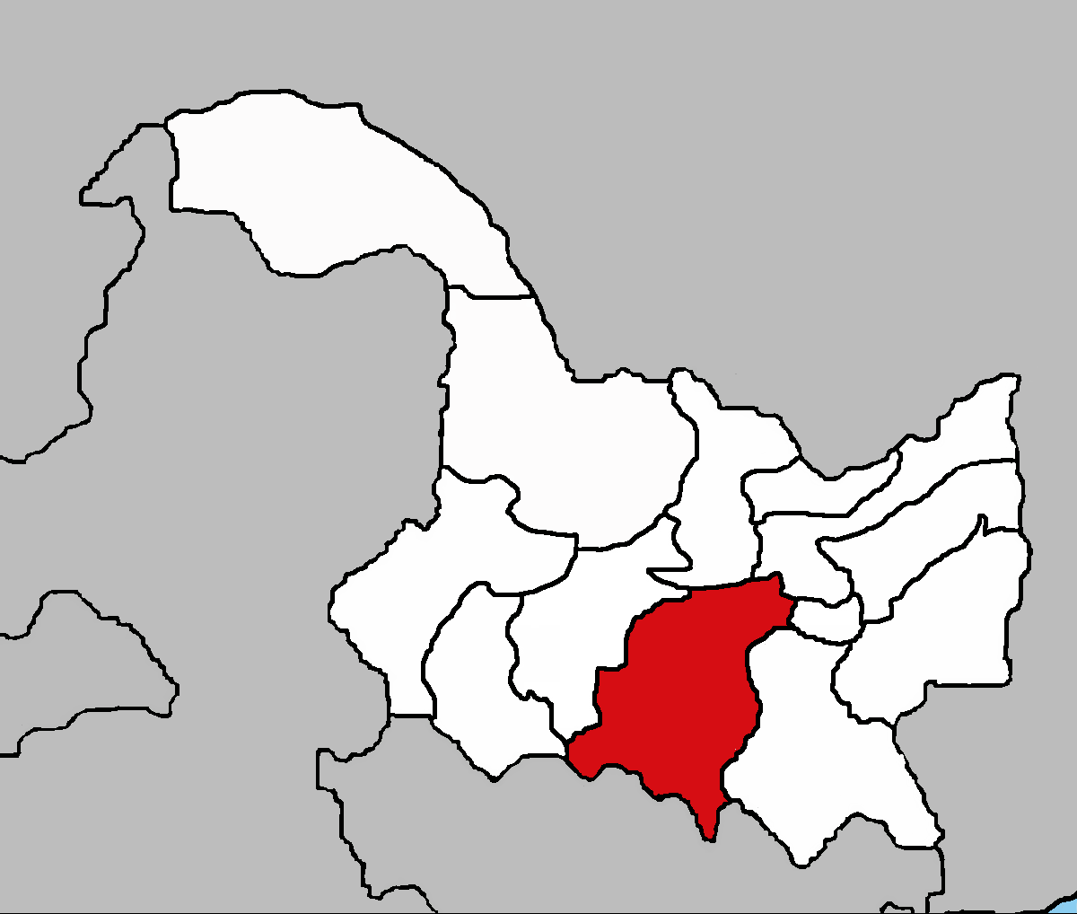 Maps of Heilongjiang Provinces, China